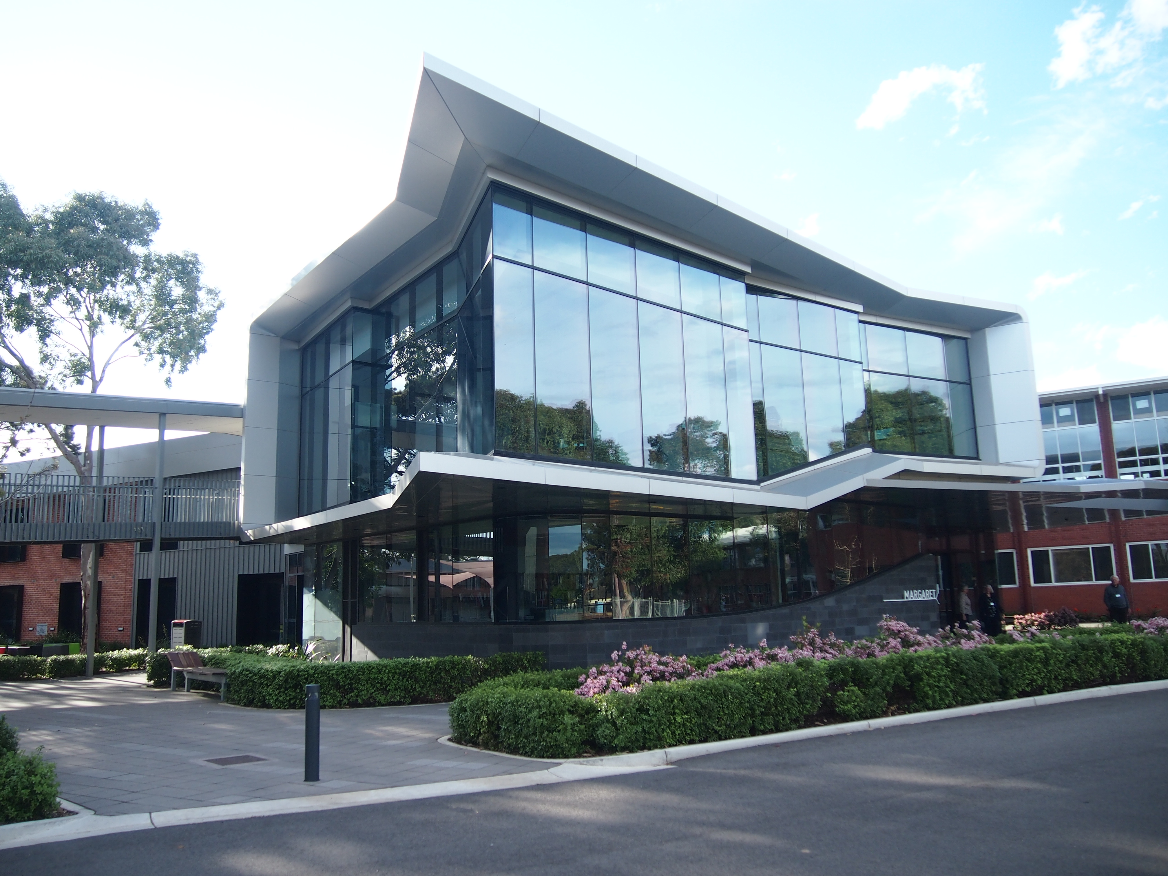 Margaret Ames Centre at the Lutheran Immanuel College in South Australia. Original filename = PA072169.JPG